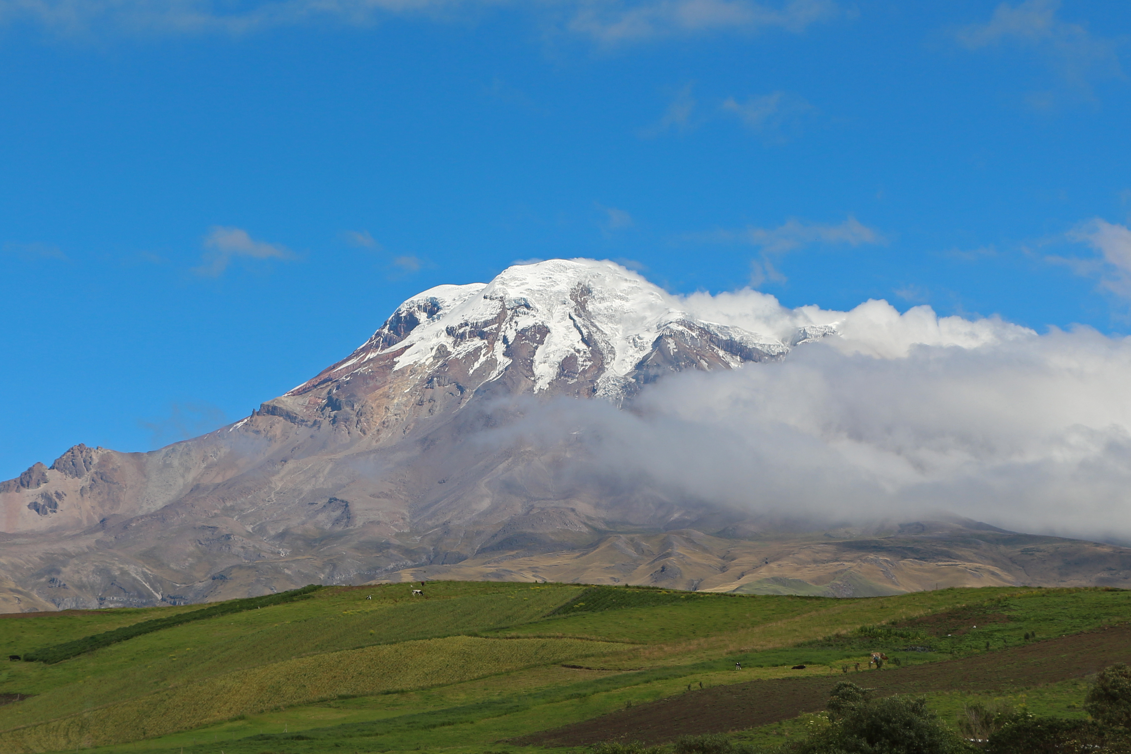 Volcano Chimborazo (6268m), Ecuador